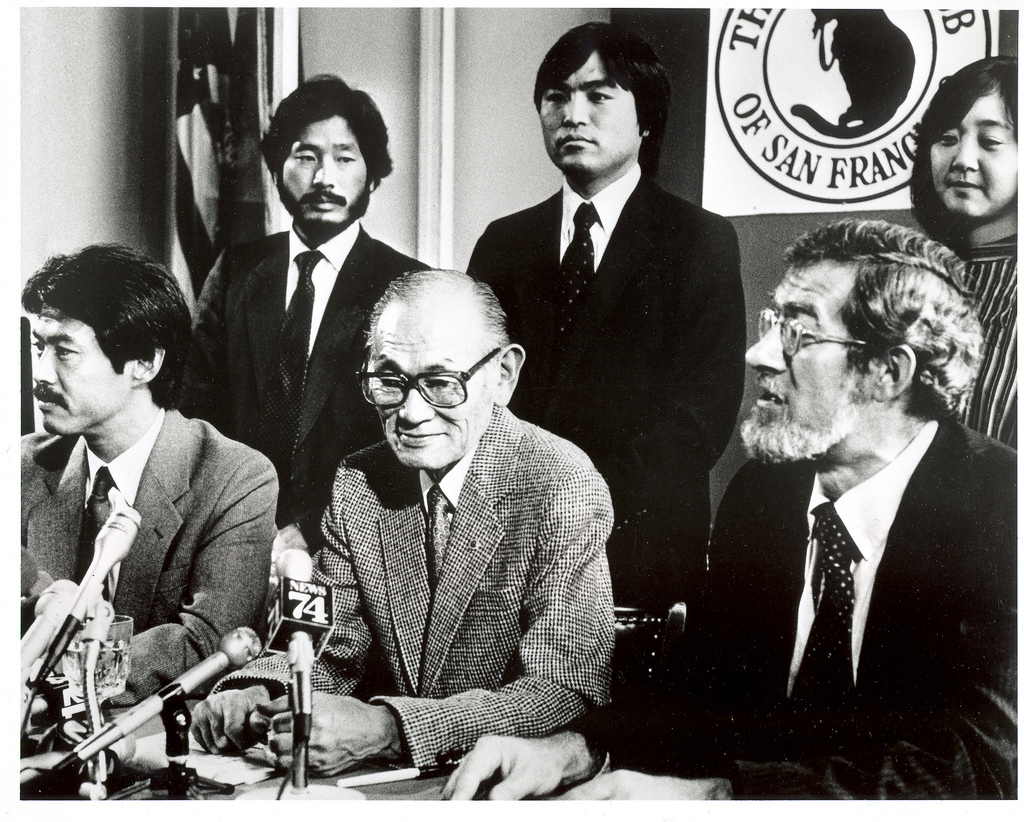 Korematsu Coram Nobis Press Conference.Fred Korematsu, center, sits with with members of his coram nobis legal team. Next to him are Dale Minami, left, and Peter Irons. Don Tamaki, Dennis Hayashi and Lorraine Bannai are seen standing.Crystal K.D. Huie / via MTYKL Foundation